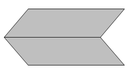 An example of the phenomenon of binocular rivalry. This image could be perceived as a folded sheet of paper with its edge folded inwards or outwards.